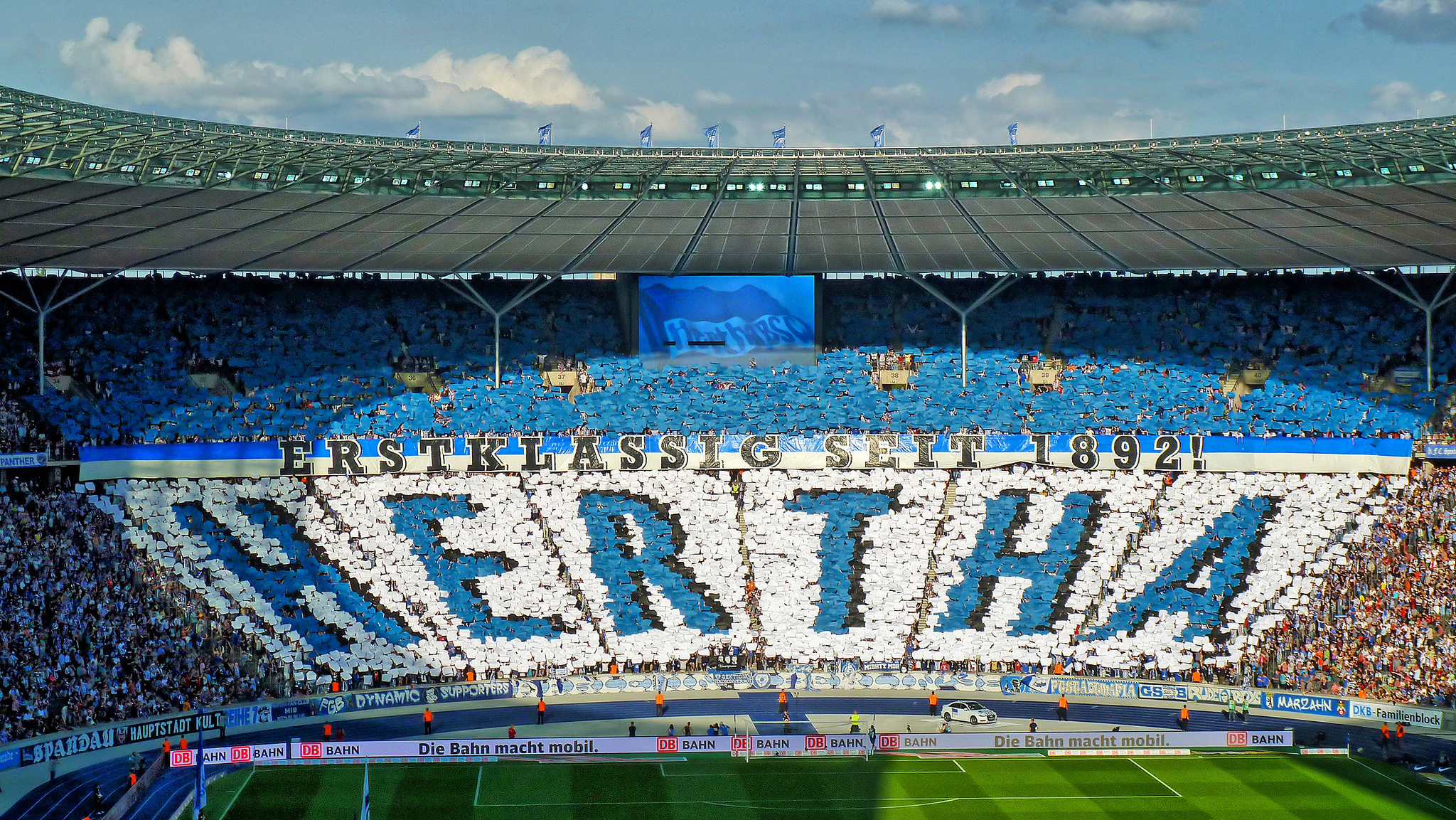 Choreo Ostkurve, prior to the Bundesliga 2013/2014 match (day 3) Hertha BSC v Hamburger SV (result 1-0). Attendance 65,000. Olympic Stadium, Berlin-Charlottenburg/Germany. Saturday, Aug 24, 2013. Panasonic Lumix TZ10, edited.